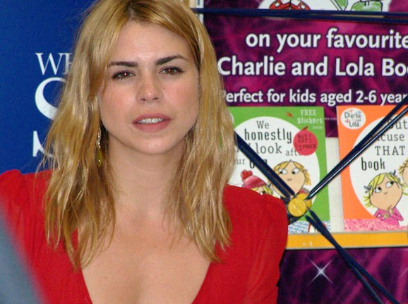 Billie Piper Billie Piper book signing in Leeds, United Kingdom